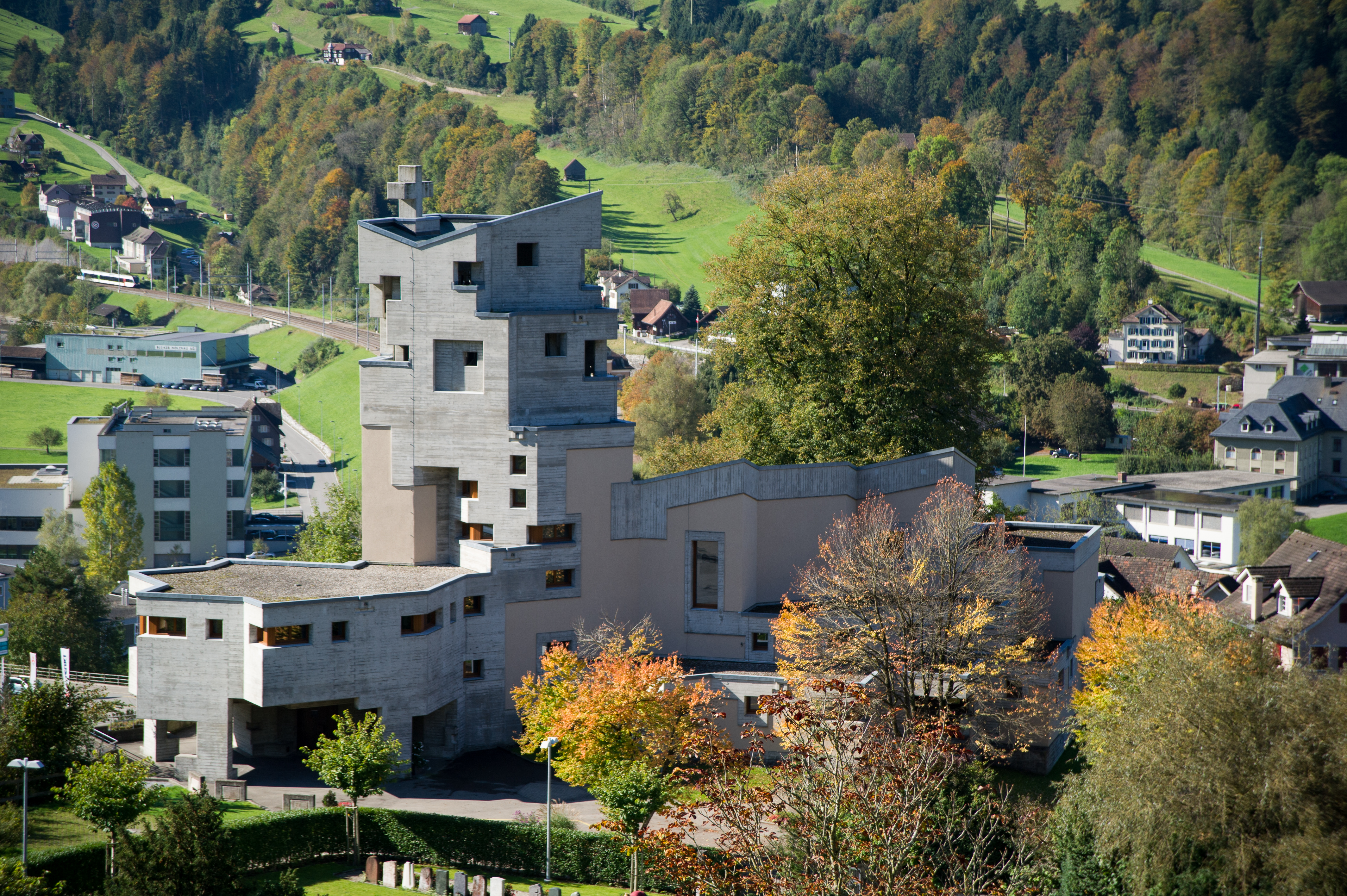 Katholische Kirche St. Gallus